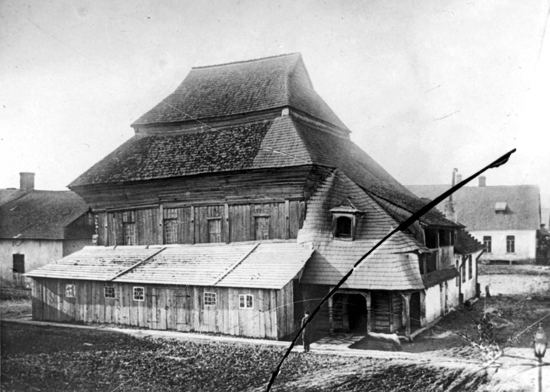 Wooden synagogue in Chodorow.